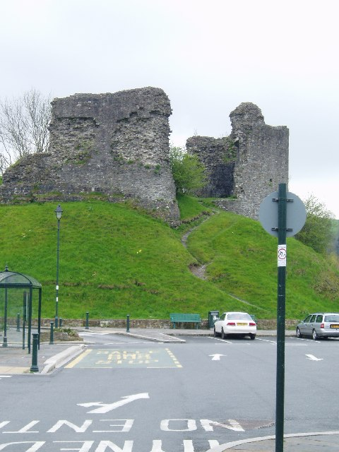 Llandovery Castle